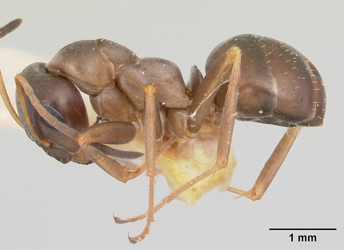 Profile view of ant Formica dirksi specimen casent0105596.